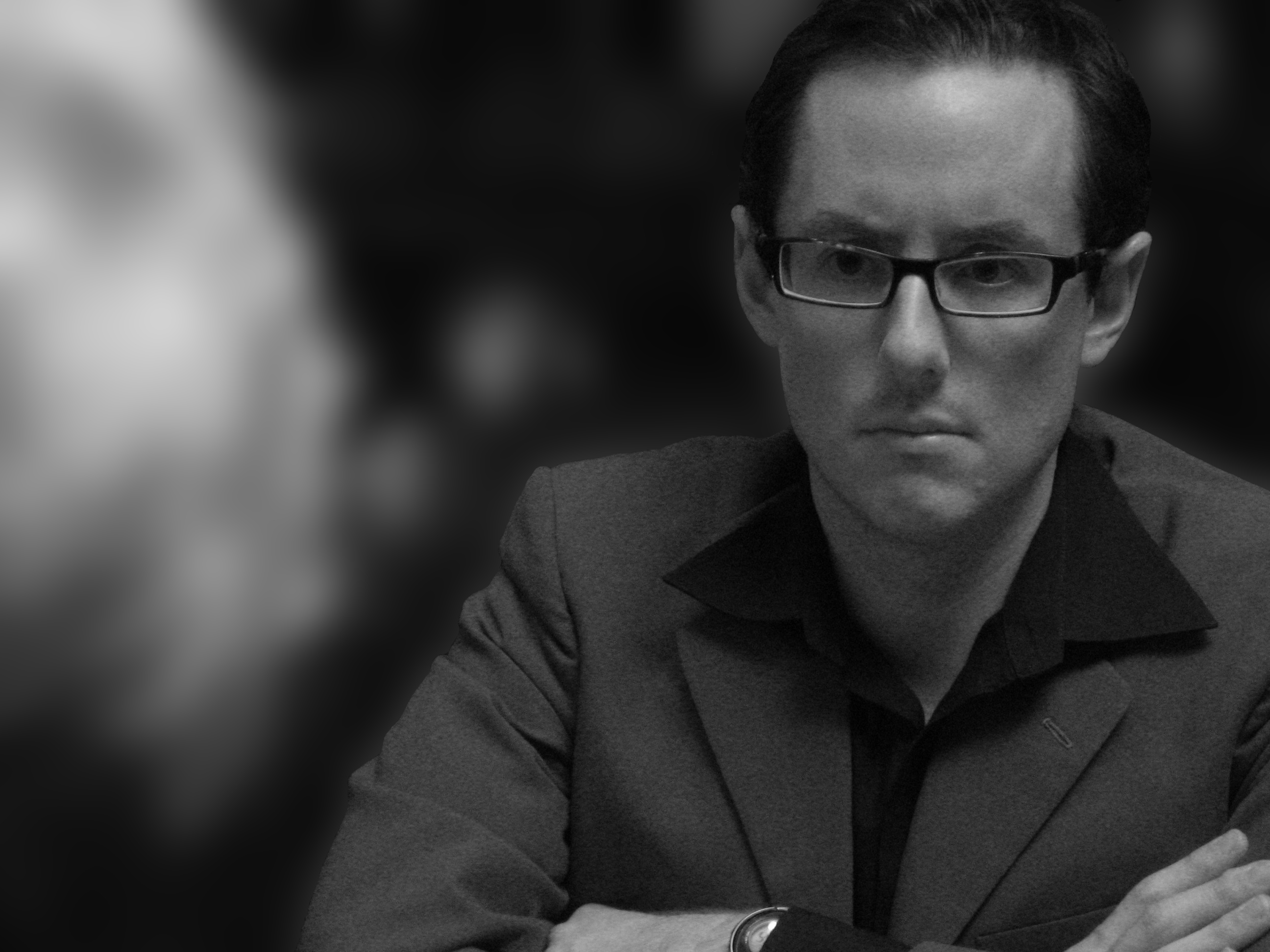 Burleigh Smith as Kenny Bunkport in Mere Oblivion